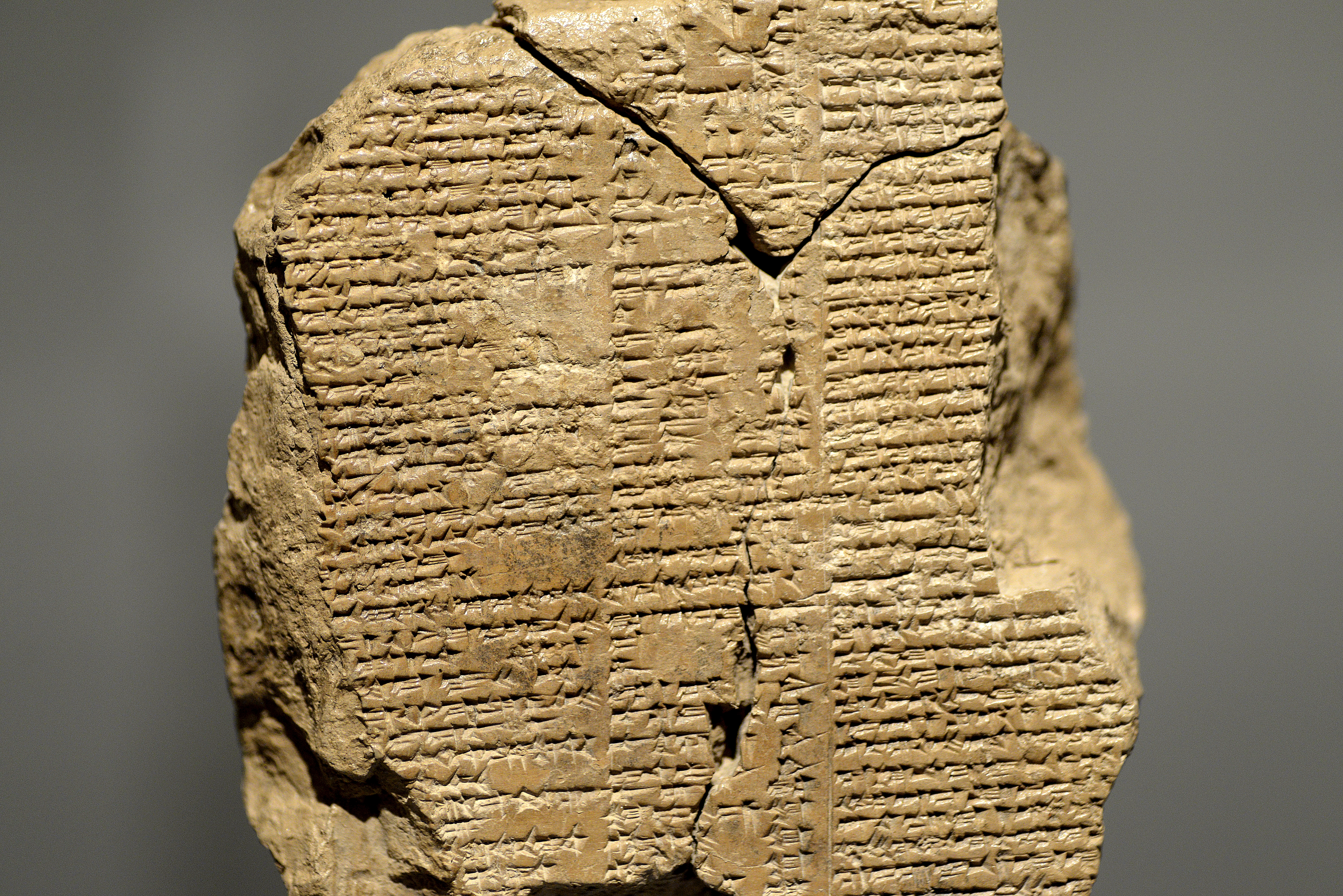 Obverse. This small 11 x 9.5 x 3 cm clay tablet is a survived fragment of tablet V of the Epic of Gilgamesh. It narrates how Gilgamesh and Enkidu entered the Cedar Forest and killed Humbaba and his seven sons. From modern-day Babel Governorate. Old-Babylonian period, 2003-1595 BCE. The Sulaymaniyah Museum, Iraqi Kurdistan.